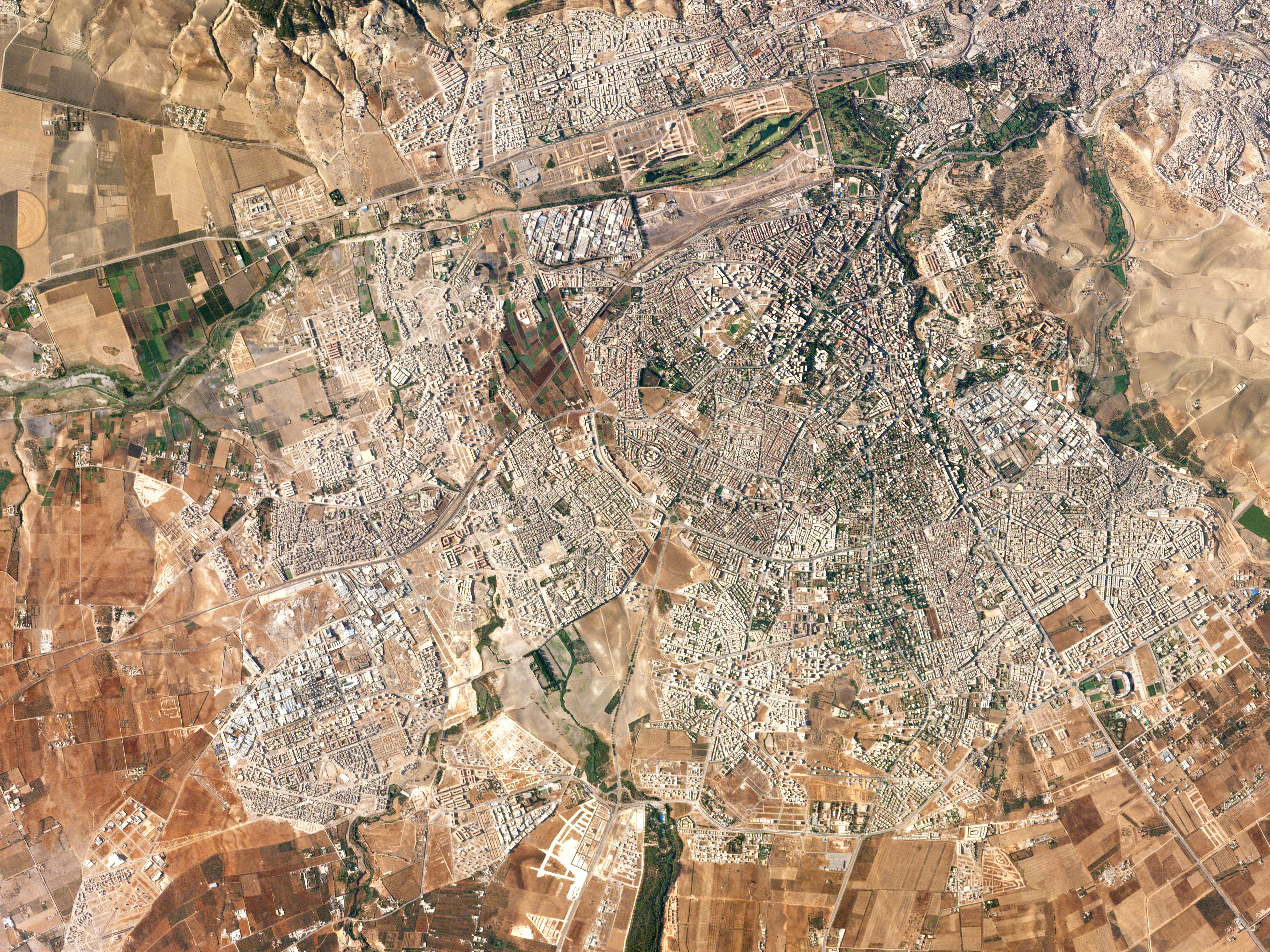 Fez Morocco August 18, 2016 Nestled in the Atlas Mountains, Fez is a city of contrasts. The narrow, crooked streets of the Old Medina (upper right) are just a short distance away from the large apartment blocks and wide boulevards of the master-planned new city.